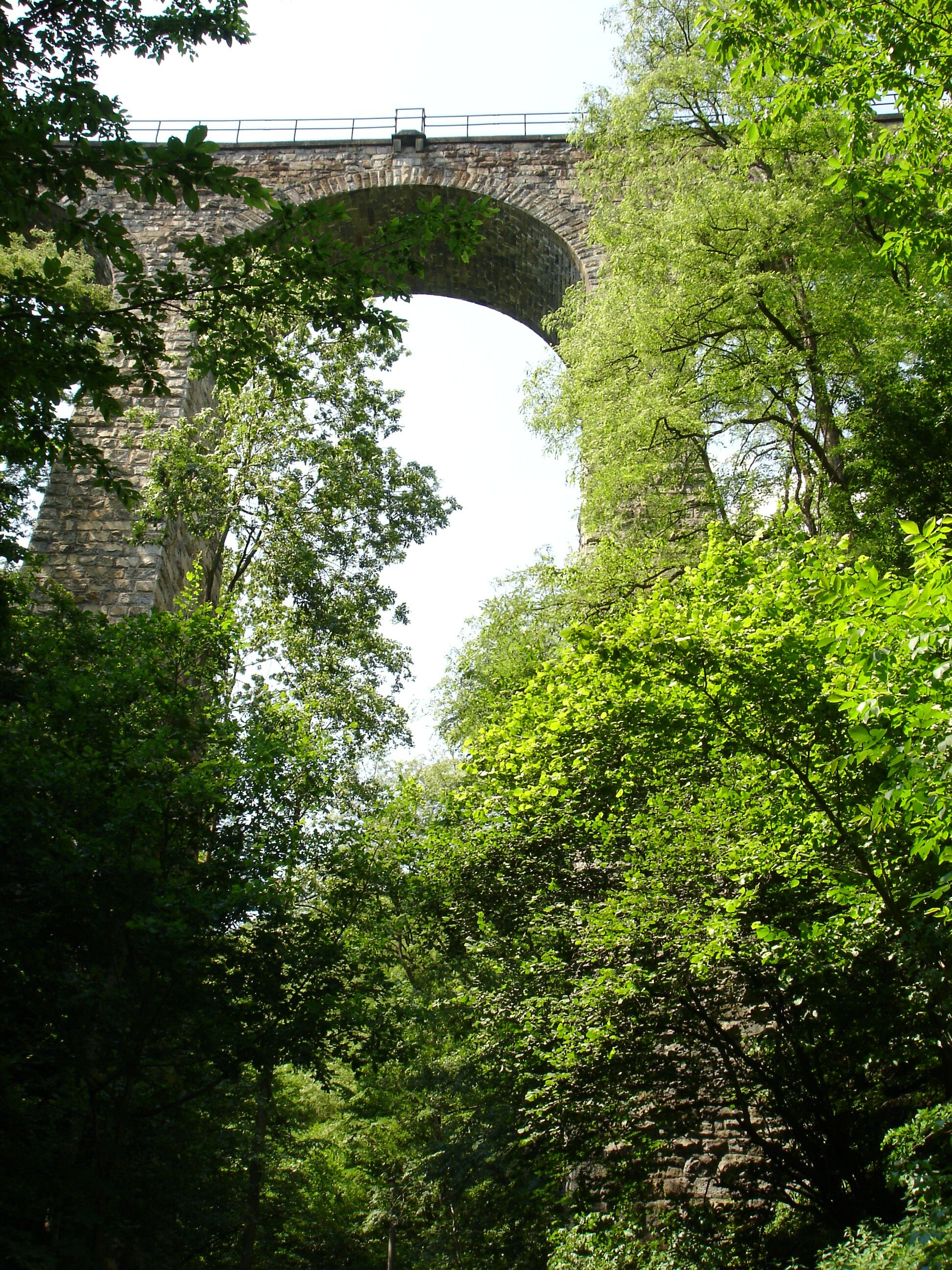 Žampach bridge, Czech Republic